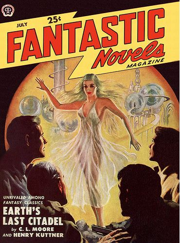 Cover of the July 1950 issue of Fantastic Novels magazine